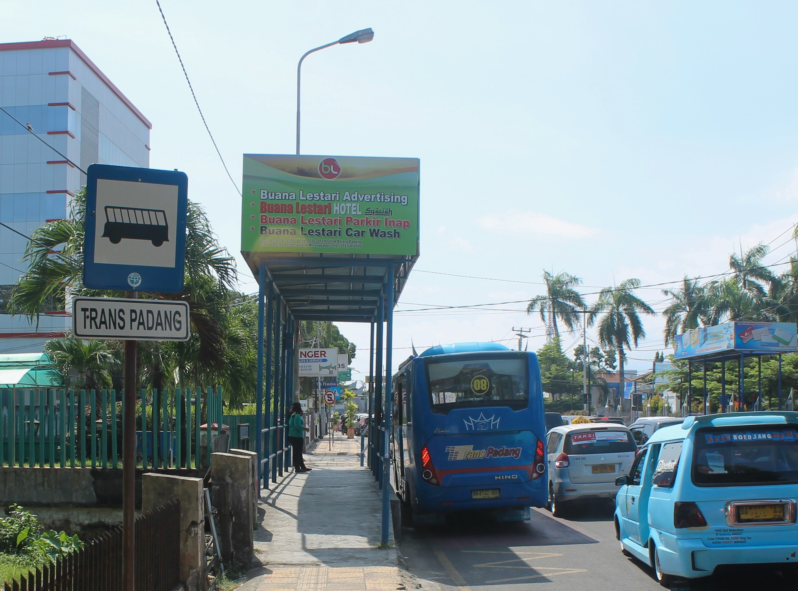 Trans Padang bus, one of public transporation in Padang, Indonesia.